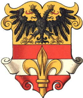 Historical coat of arms of Trieste, used until 1918